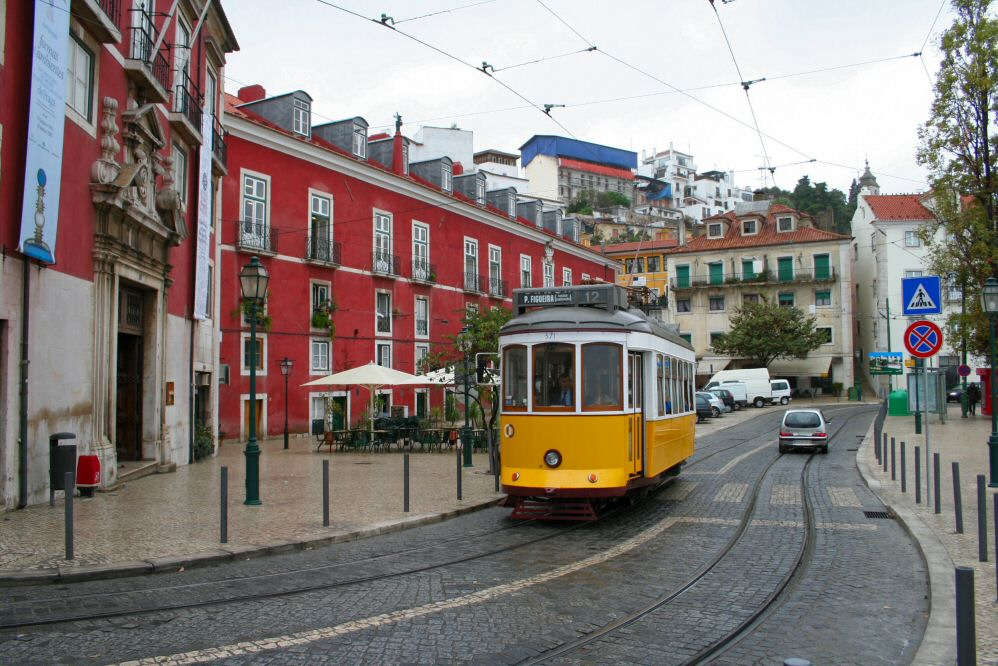 Tram in Lisbon, Portugal